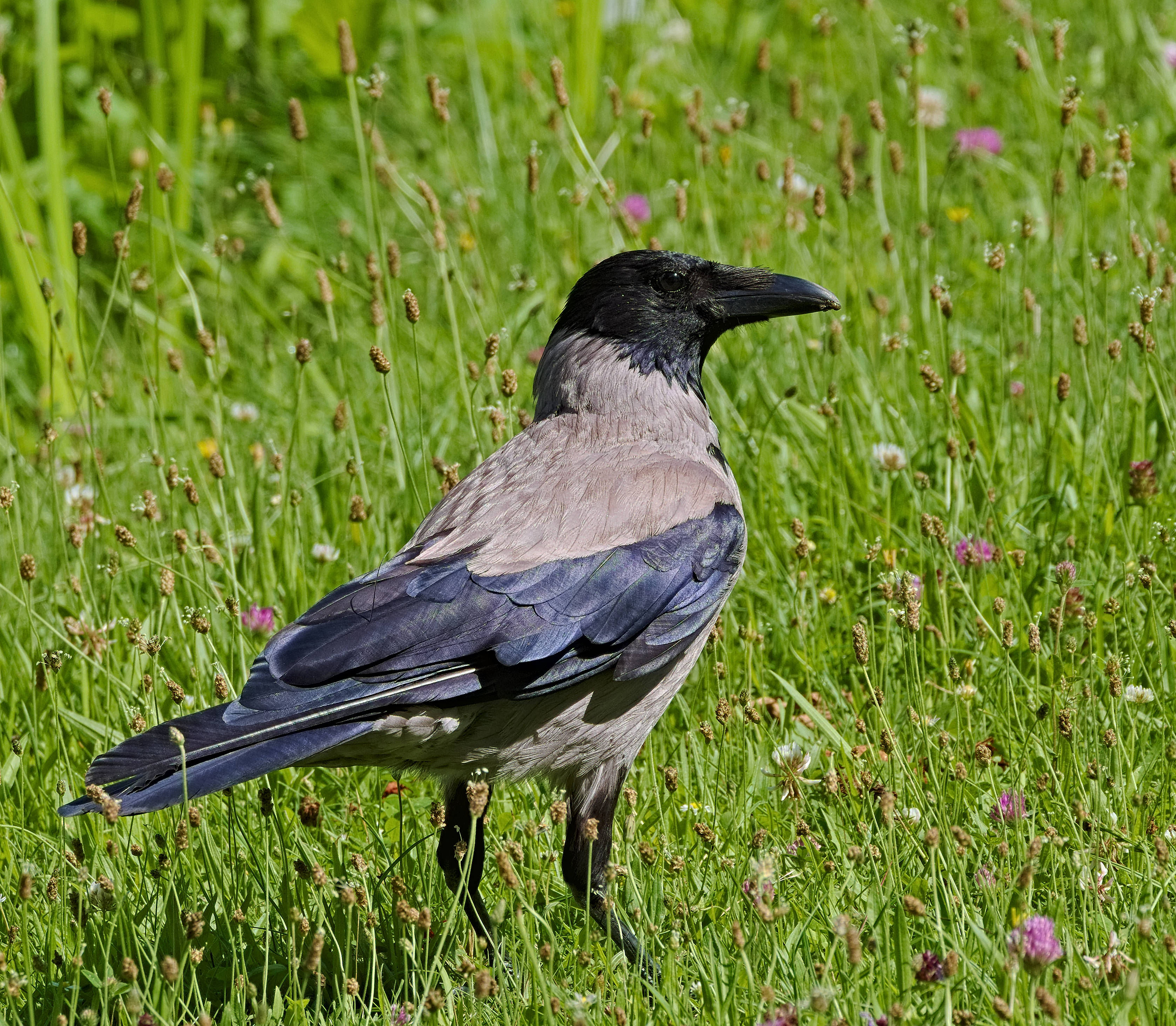 Hooded crow - Corvus cornix. Taken by the Scharmützelsee in Bad Saarow,, Brandenburg, Germany.